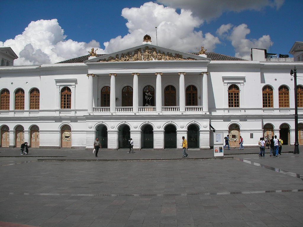 The National Theatre in Quito, Ecuador.